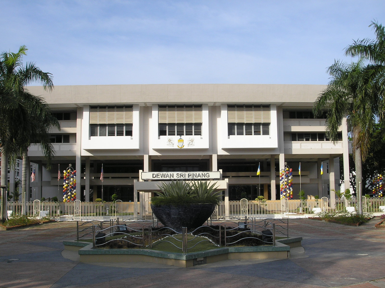 Image of the Dewan Sri Penang.